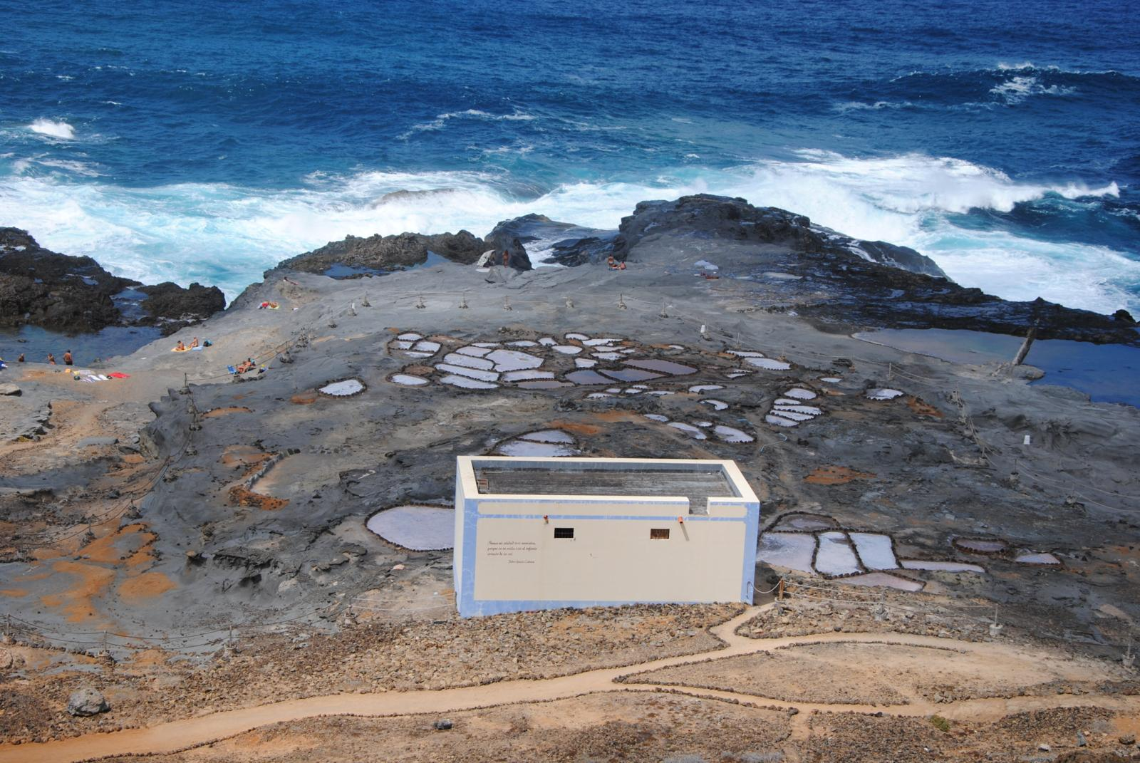 Bufadero Salt Pans, Arucas (Gran Canaria, Canary Islands - Spain). It was built in the 17th century and is one of the last vestiges of salt evaporation ponds built on the model of primitive on rock salt evaporation pond.